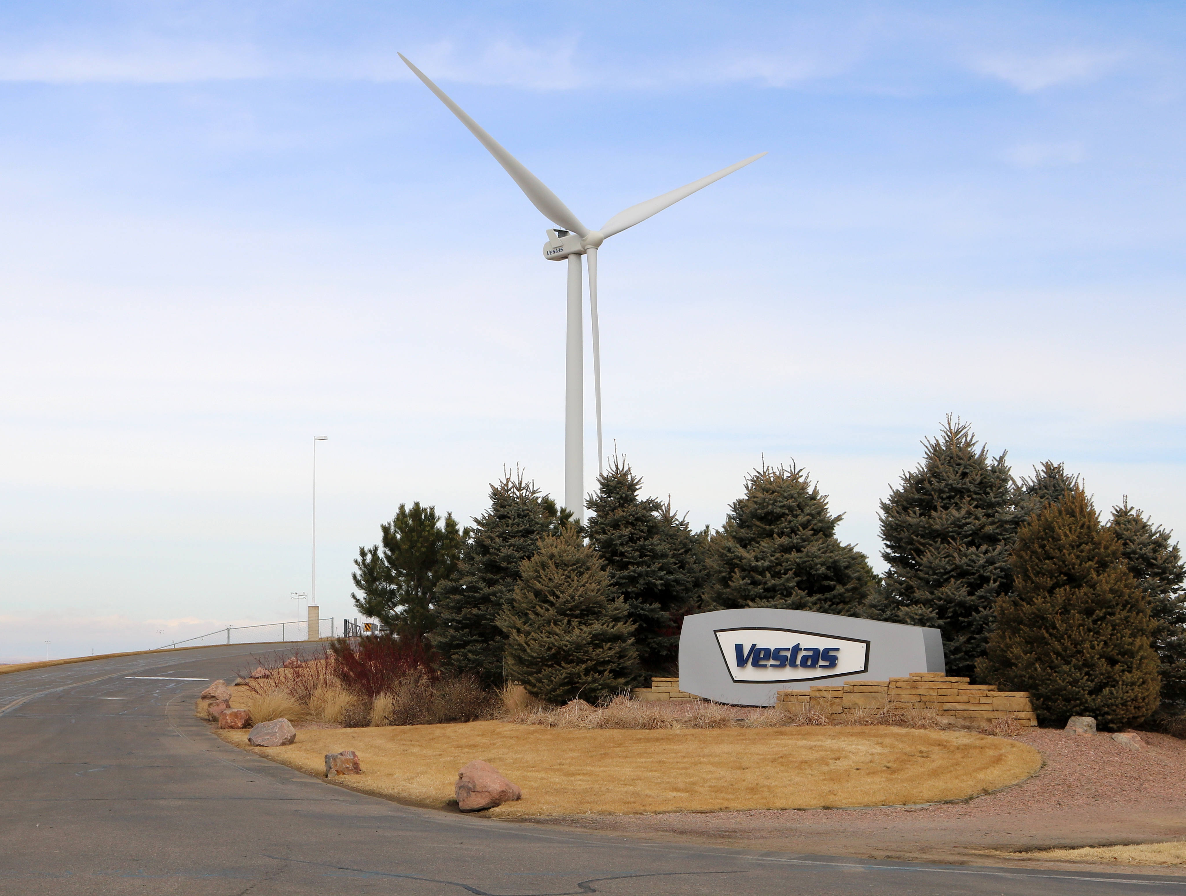 The main entrance to Vestas Towers America's wind tower manufacturing facility in Pueblo County, Colorado, located at 100 Tower Road, Pueblo, Colorado.